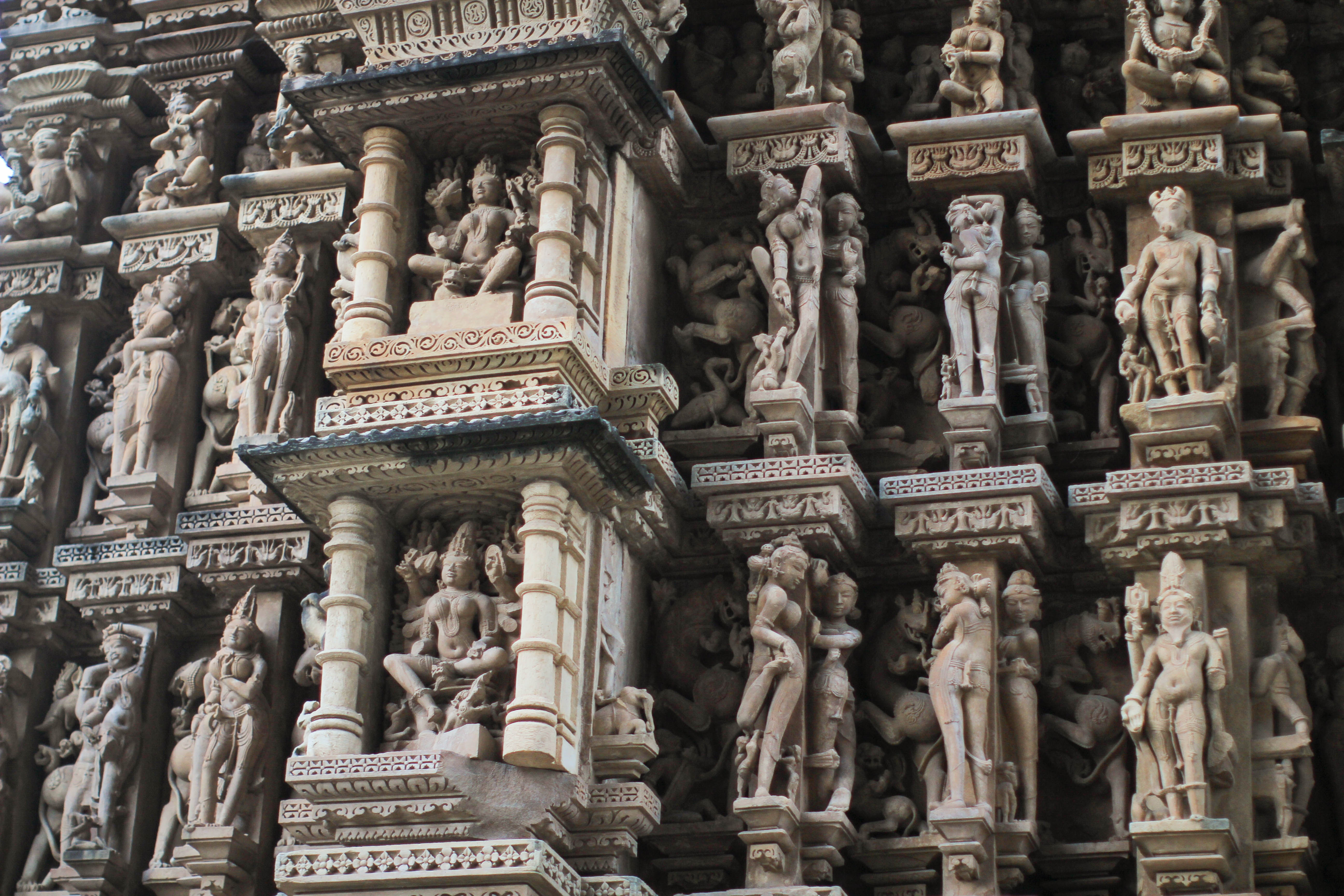 Jain Temple Adinatha, Khajuraho, MP